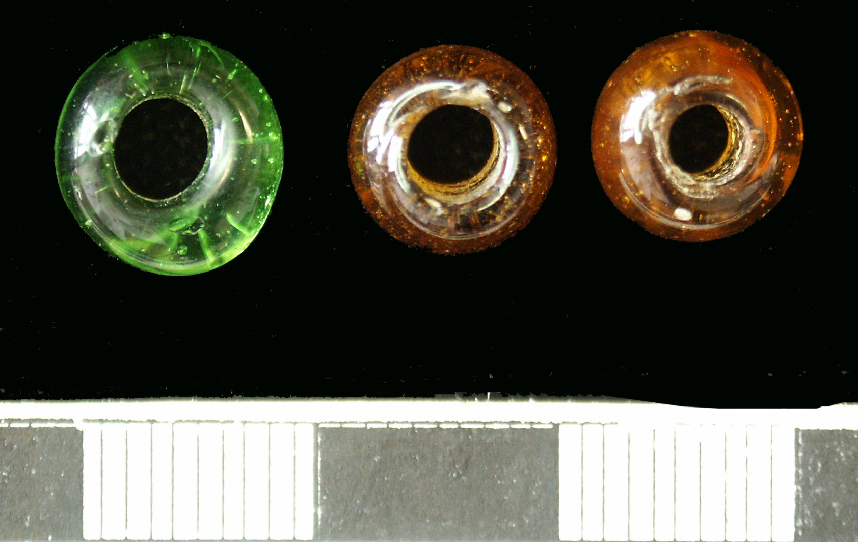 3 Undated wound glass beads, one translucent green annular (diameter 10mm) and two translucent orange/brown globular (both diameters 9mm). All of uncertain date.